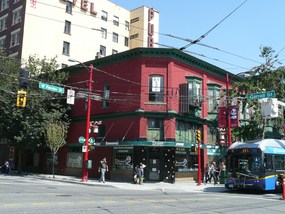 The former Chinese Times building at 1 East Pender Street in Vancouver's Chinatown.